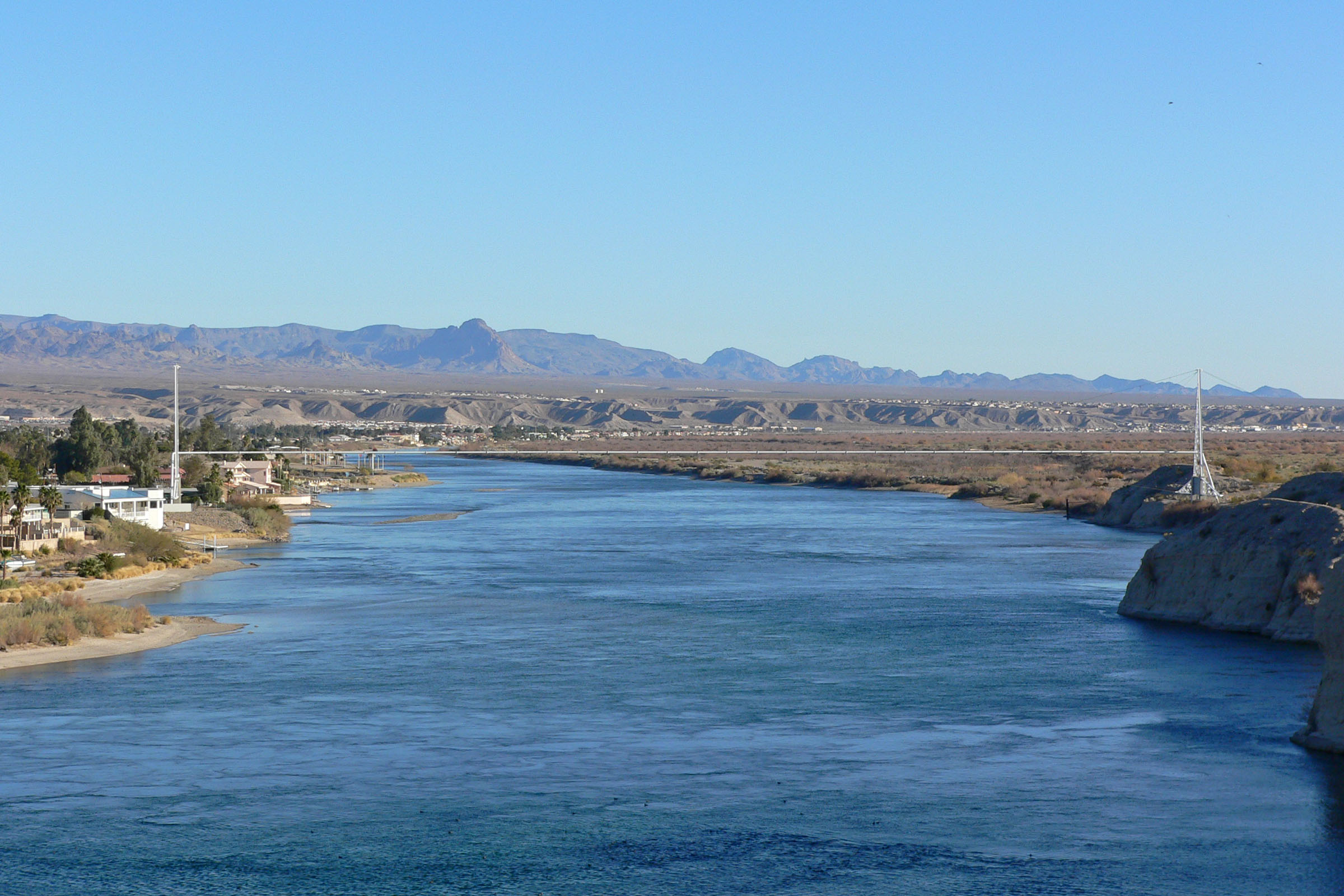 Colorado River at Bullhead City, Arizona